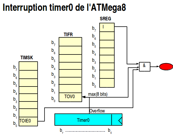 Timer0 interrupt managment